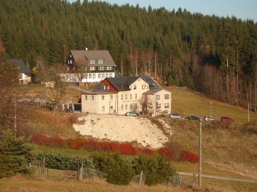 Picture of the "Gasthof Steinheidel" (Steinheidel/Breitenbrunn, Sachsen, Germany) also known as "Staahaadler Aff".